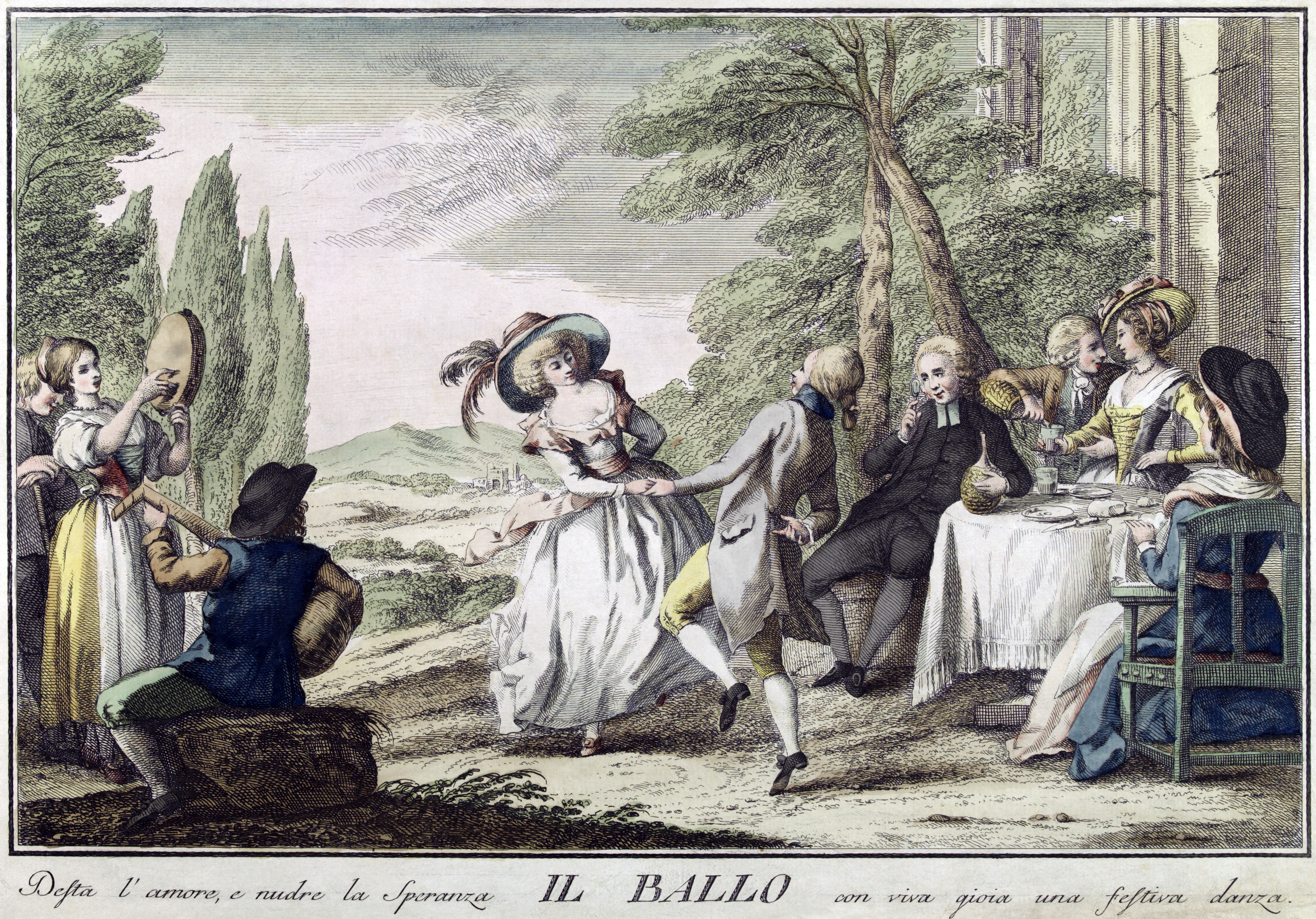 "Il Ballo" (in English "The Dance"; caption "A cheerful dance awakens love and feeds hope with lively joy.") from Giuochi, Trattenimenti e Feste Annue Che si Costumano in Toscana e Specialmente in Firenze. Firenze: Pagni & Bardi, 1790 (illustration no. 16 of 25)